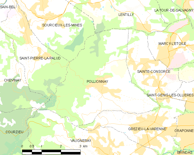 Map of French municipality